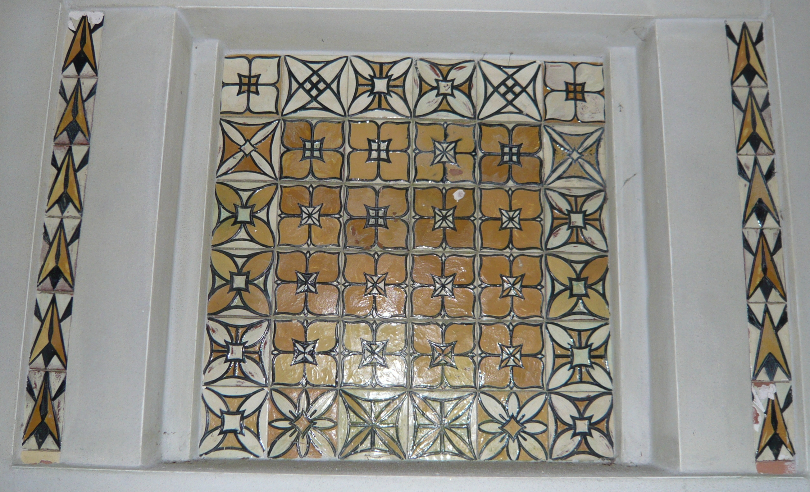 Het Kareol, fomer villa in Aerdenhout built in 1911 that has been rebuilt in 1979 as an apartment building. The grounds remain parkland. Tile decoration inside tempel, part of a grounds-wide decoration plan by the artist Max Laeuger, of which only this pattern remains. Another large peacock from the former building can be seen in the Bloemendaal city hall.